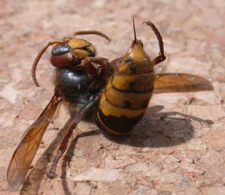 Dead European hornet (Vespa crabro, also known as "bell hornet", or simply "hornet") with extended sting.